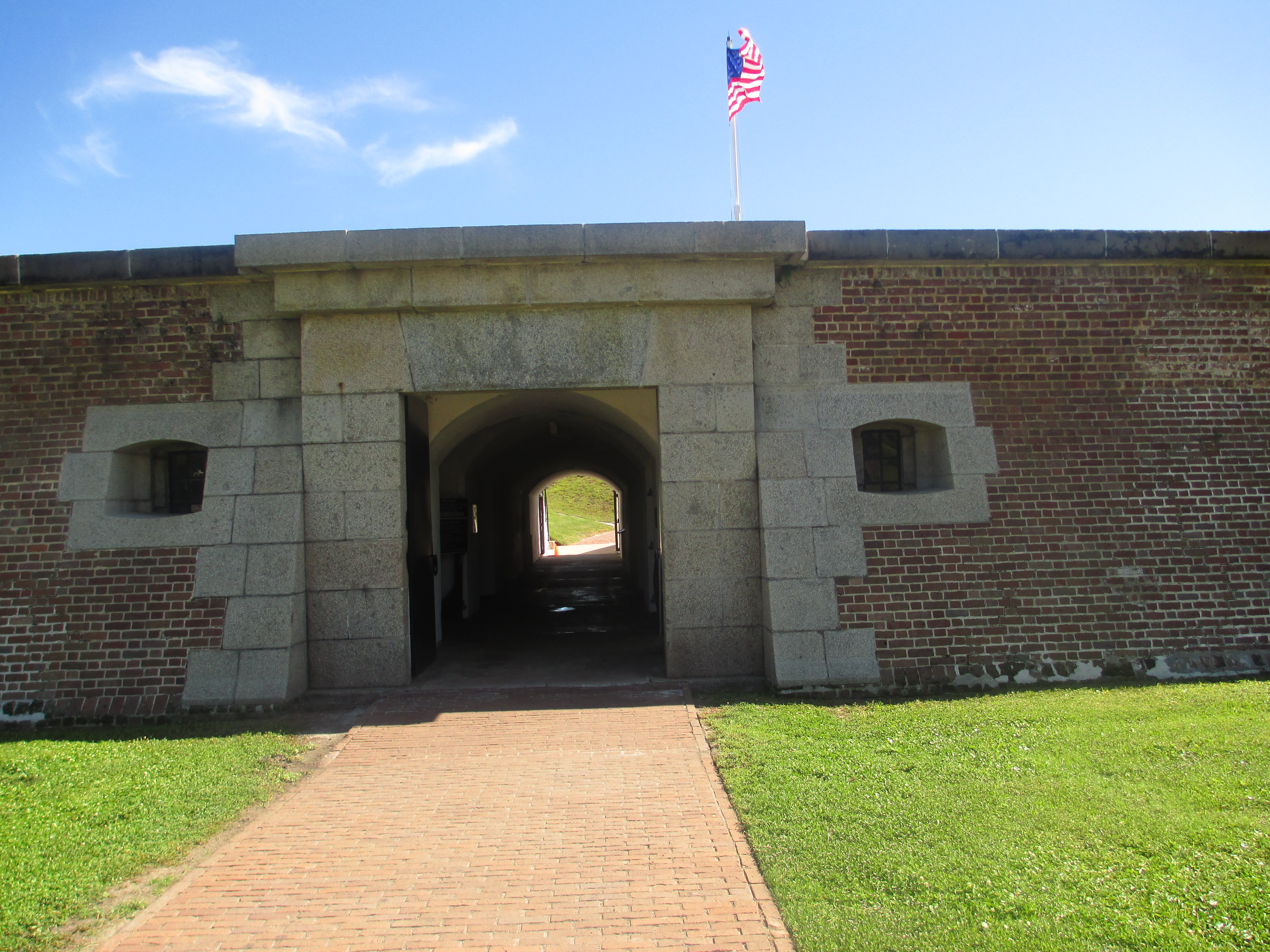 I took photo with Canon camera at Fort Moultrie, SC.